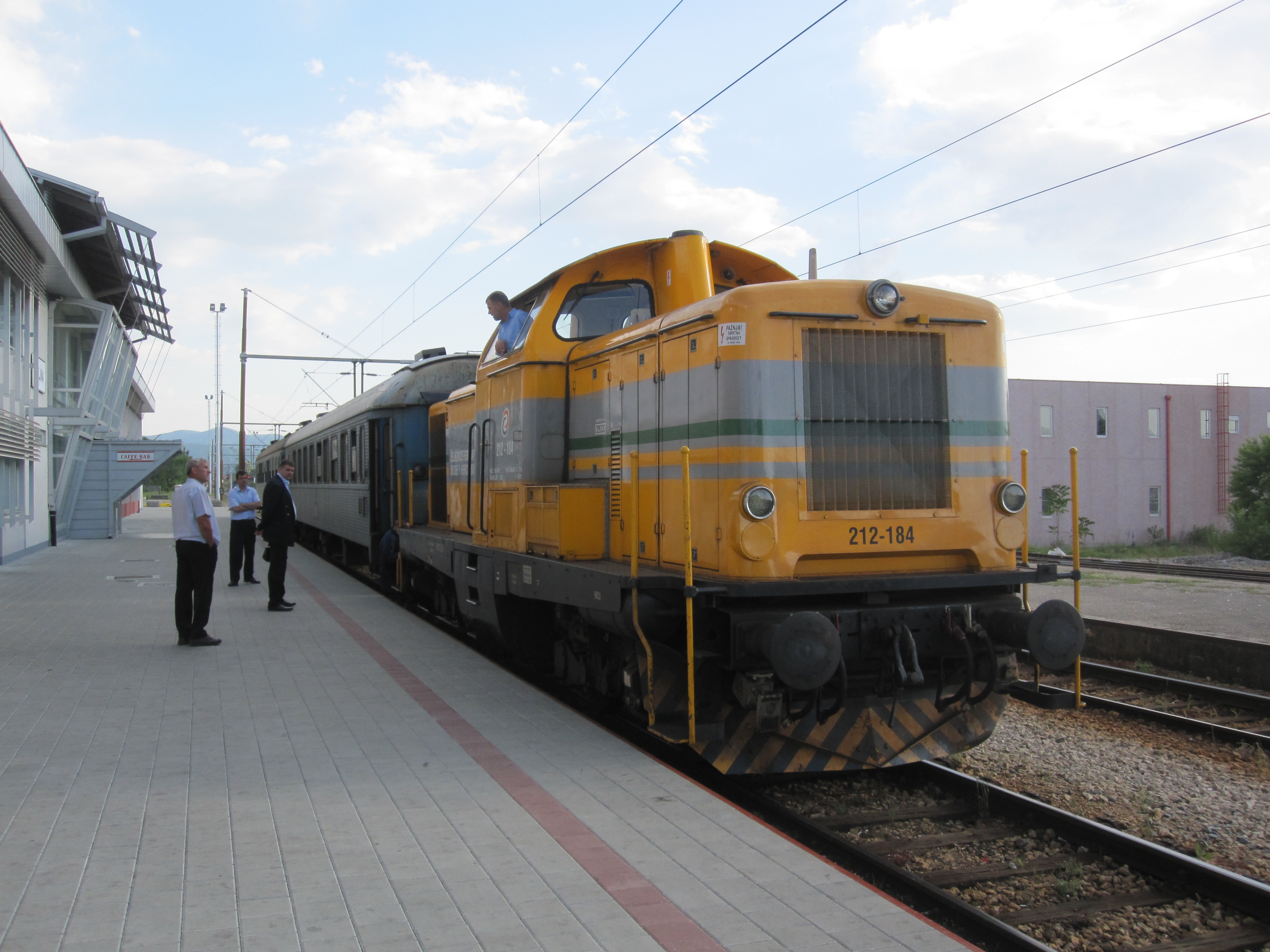 The journey from Sarajevo to Ploče I made on 11 May 2011 was partially covered by bus between Konjic and Mostar. This was due to long term engineering works to upgrade the track on this scenic route. As a result the section south of Mostar must have had the power turned off as the forwarding train to the border station at Čaplijna was diesel worked by ex-DB 212.184 The Bosnian railways haven't even bothered to renumber it. This view was on the northbound working in the evening having spent the afternoon in Ploče.